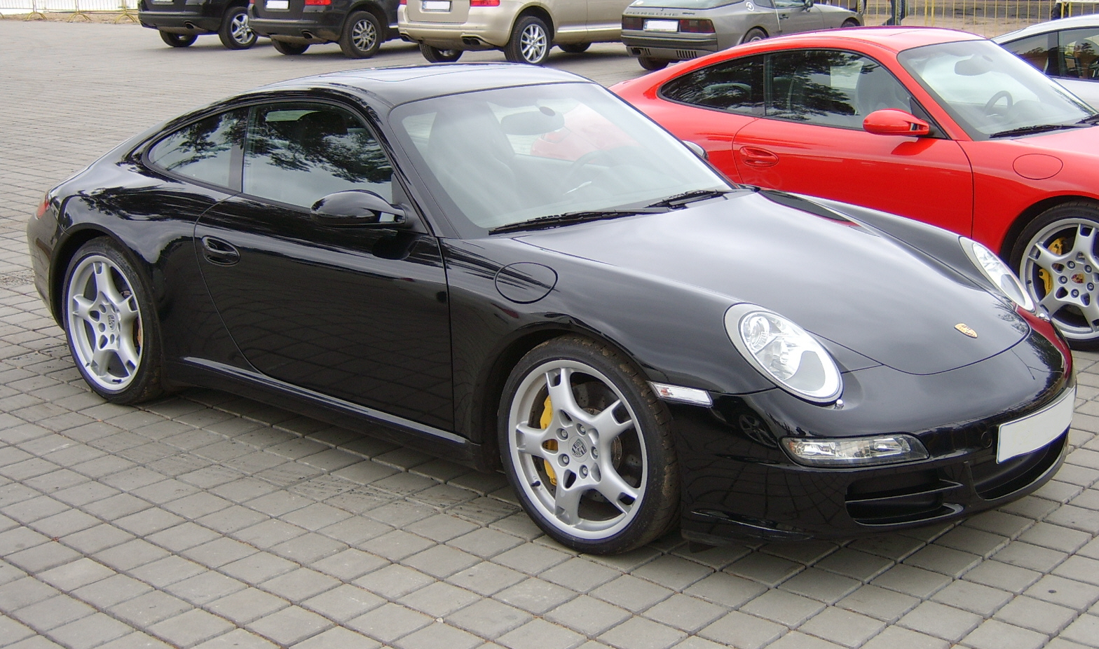 Porsche 911 (997). View: right side